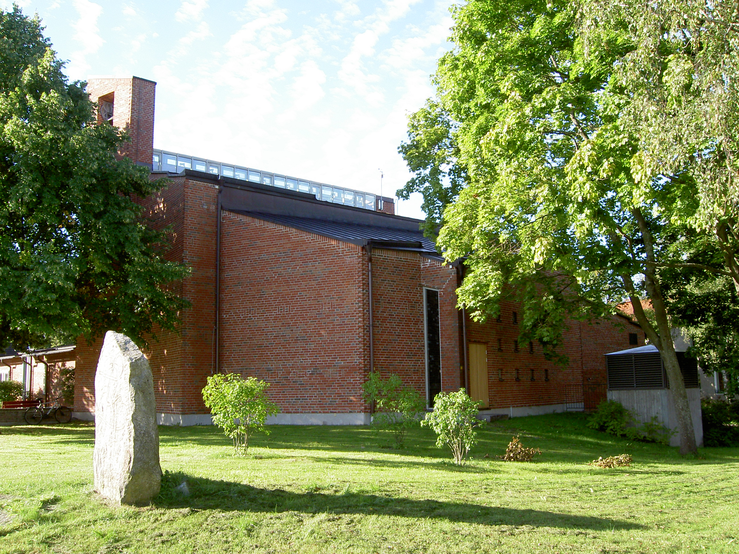 Runestone U Fv1953;263 from Helenelund, now located at Kummelby church.